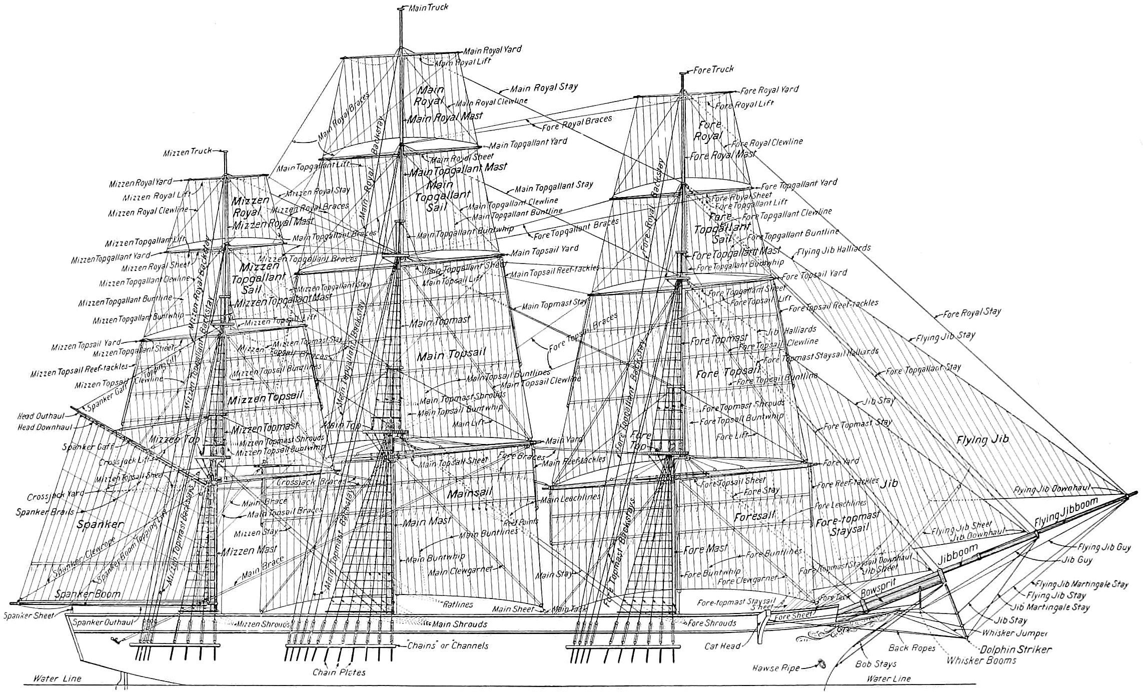 Diagram showing the names of sails etc. for a fully-rigged three-mast ship.